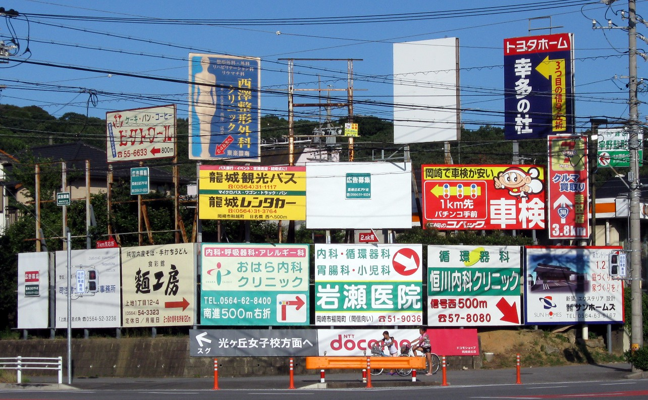 Advertisements at an intersection in Okazaki, Aichi, Japan, featuring many arrows. The image has been cropped and color-balanced from the original; please contact me if you would like the unaltered version.